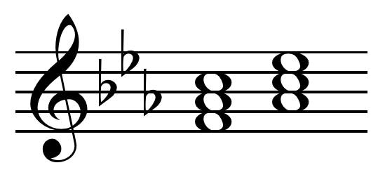 Subdominant parallel in C minor. Created by Hyacinth (talk) 00:24, 9 May 2010 using Sibelius 5.